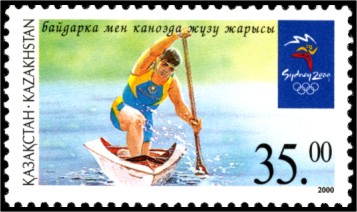 Stamp of Kazakhstan